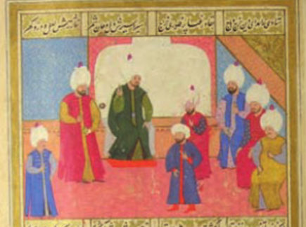 Audience of Third Vizier Piyale Pasha. Şehnāme-i Selīm ān, Istanbul, ca. 1571–81, Topkapı Palace Museum Library, A. 3595, fol. 29a.